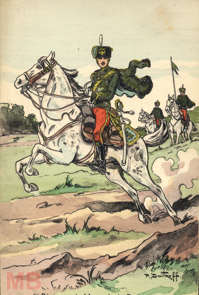 Uniform of Leib-Husar 2-nd Pavlograd Regiment. 1914 Postcard.